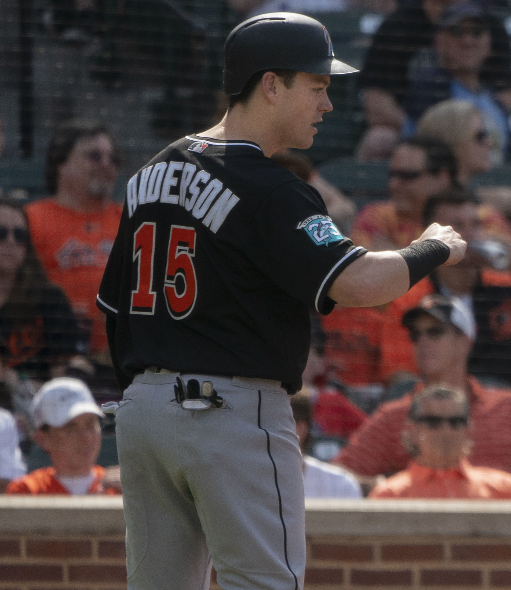 Brian Anderson and J. T. Realmuto of the Miami Marlins. Austin Wynns of the Baltimore Orioles. Camden Yards in Baltimore in 2018.